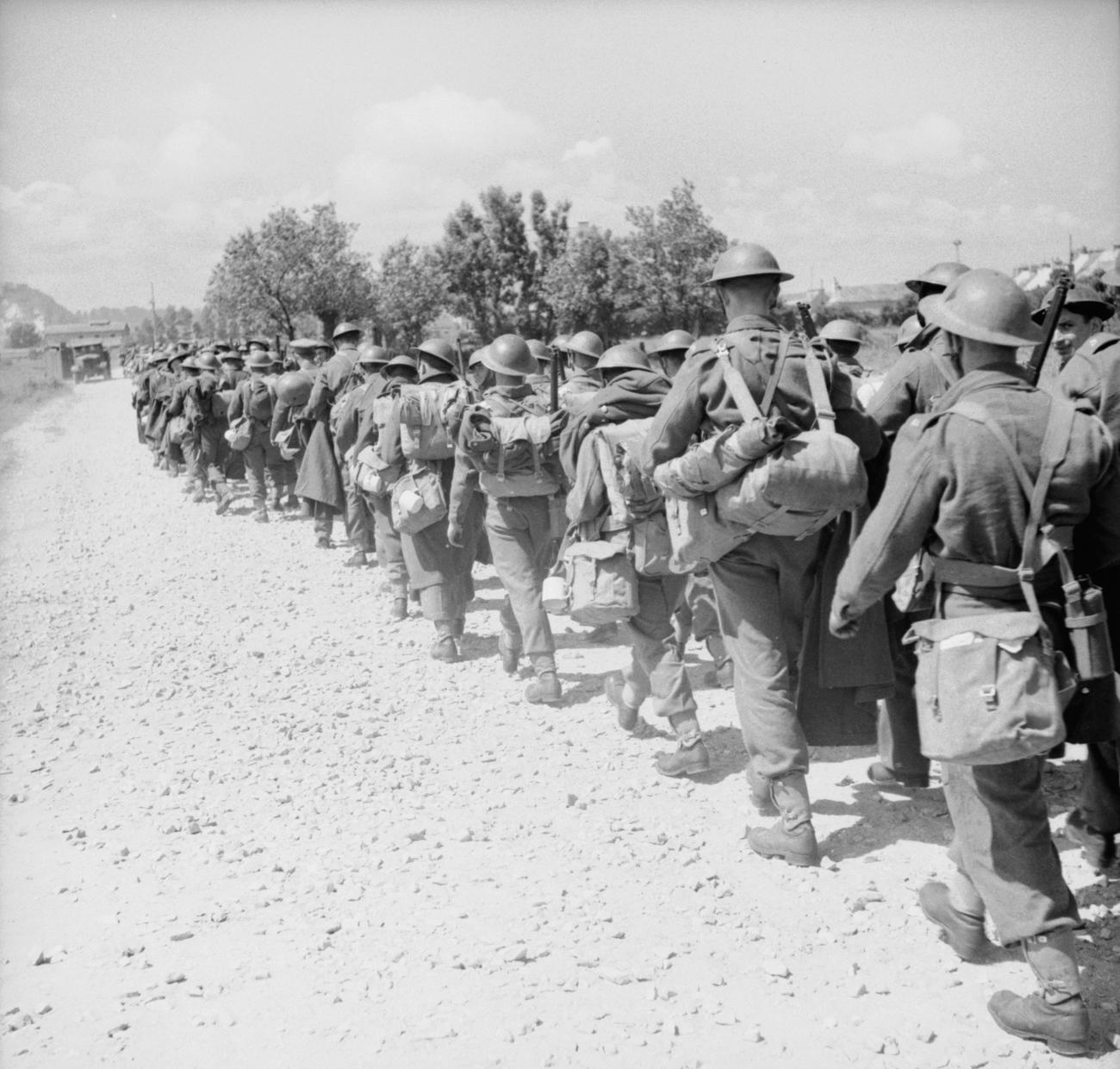 The Evacuation of the BEF from France, June 1940: A column of British soldiers retreating to the Channel ports.